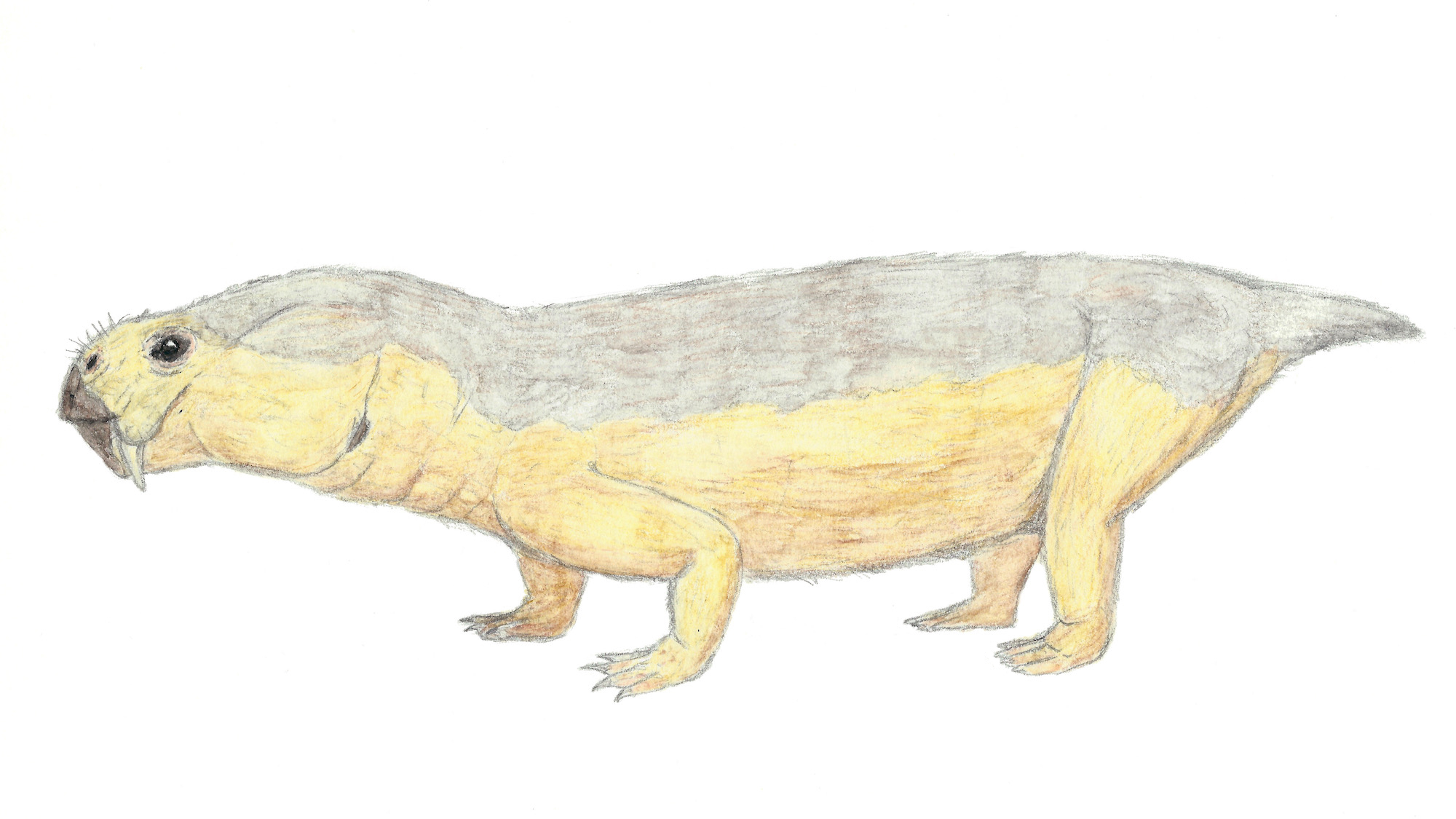 Life restoration of a male Diictodon feliceps, a dicynodont which lived in South Africa 255-250 million years ago